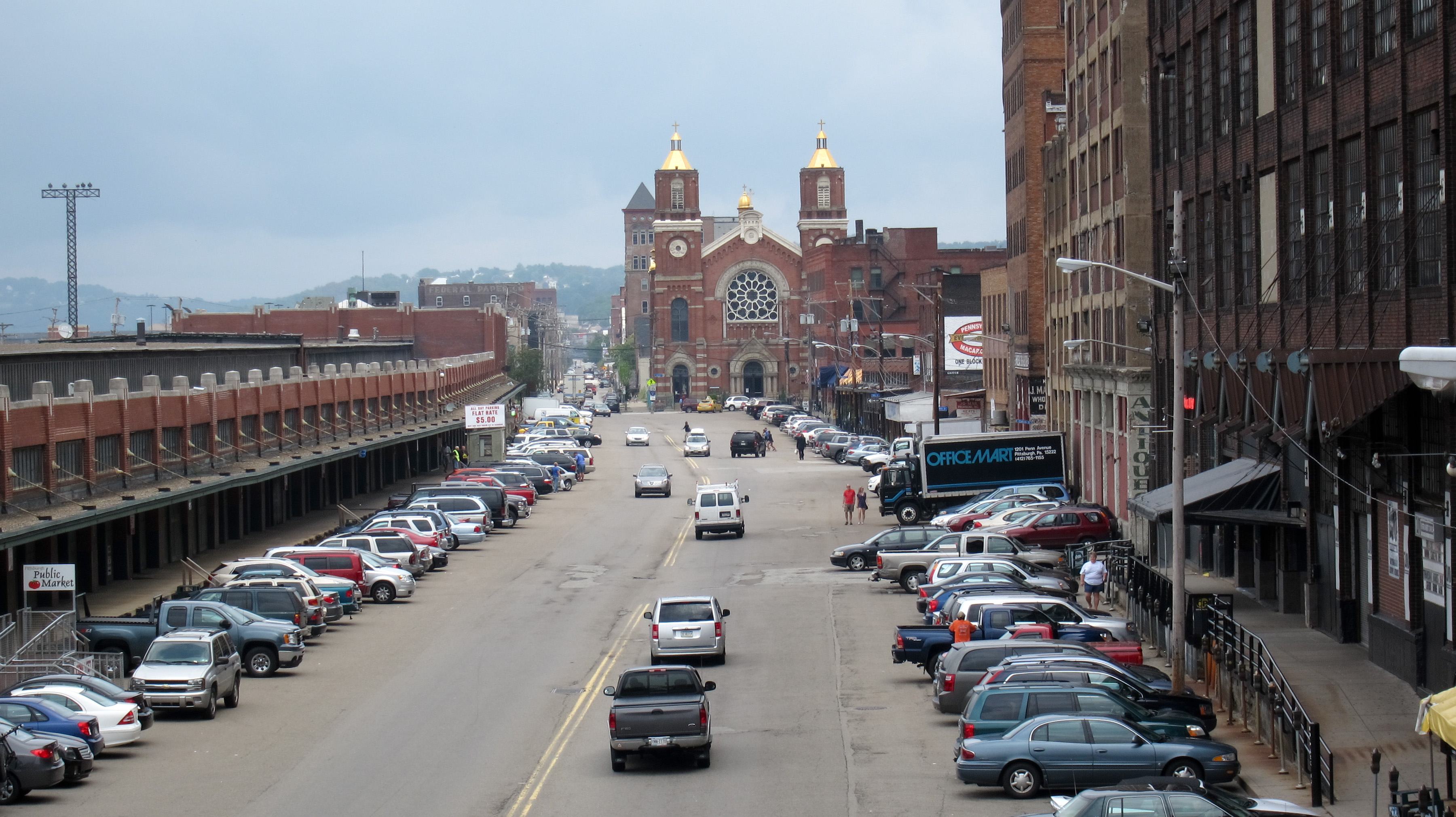 "The Strip"